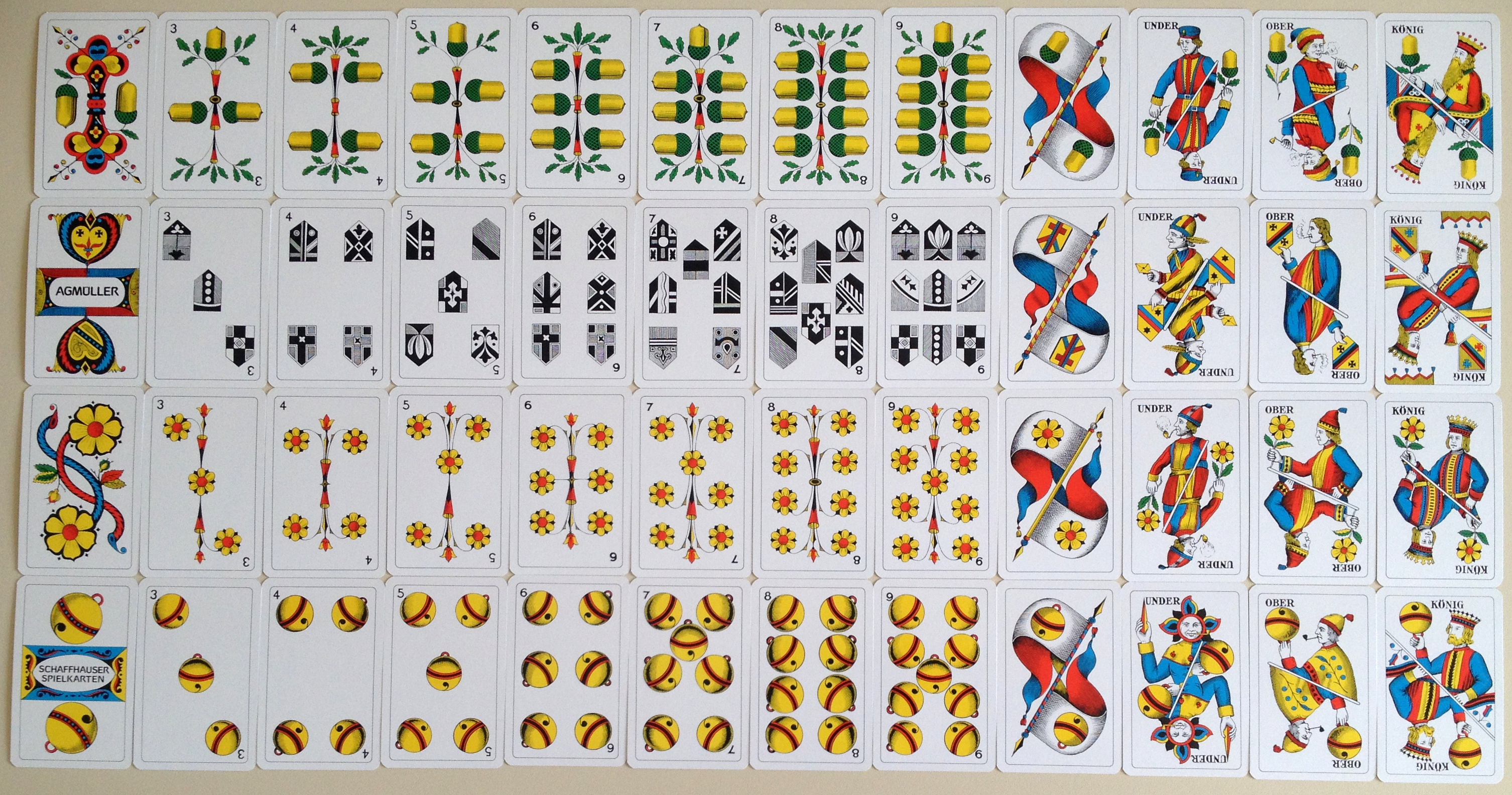 Photo of Swiss German playing cards by AG Müller. Public domain standard pattern published by many companies.